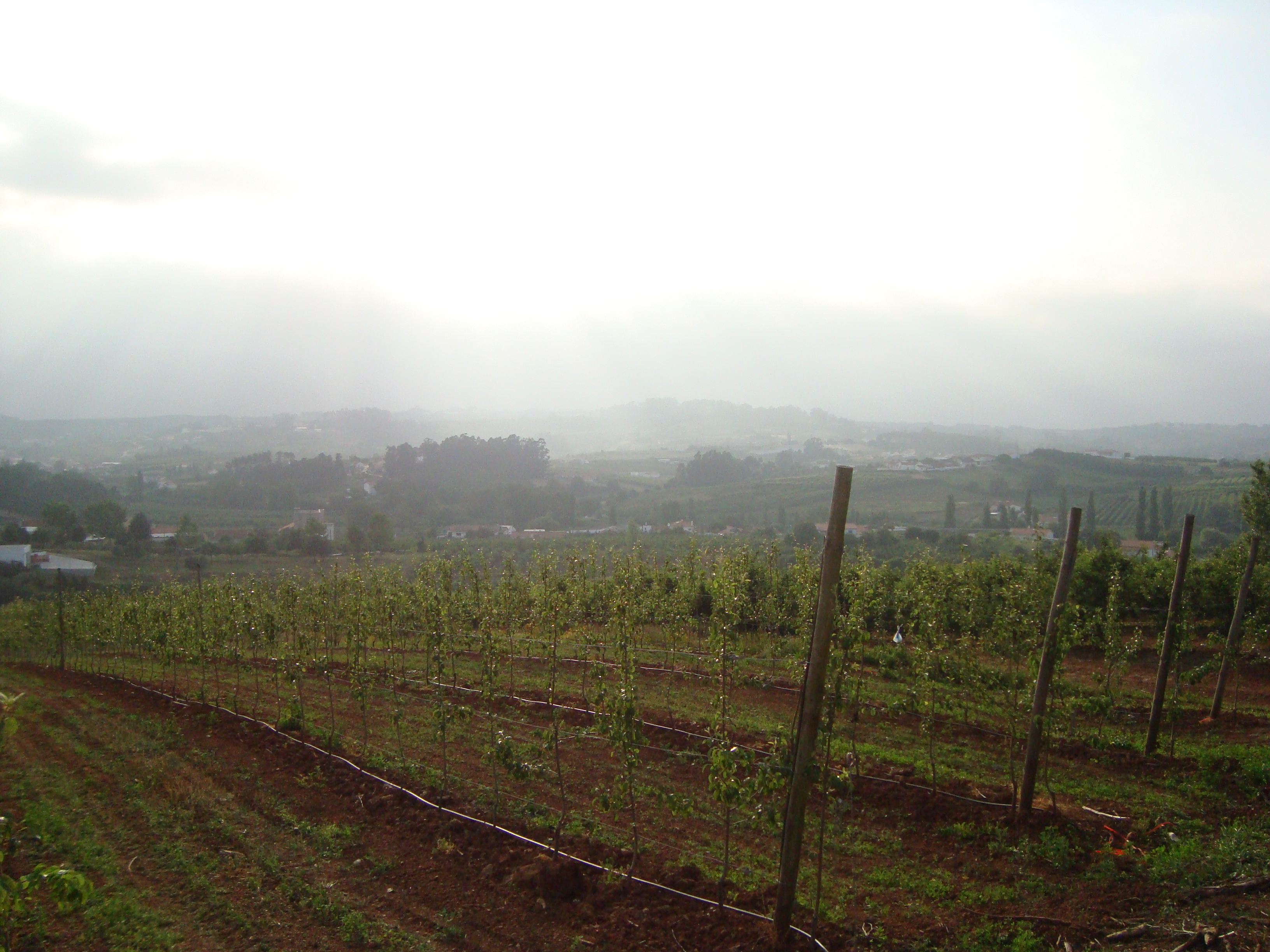 Acipreste's weather